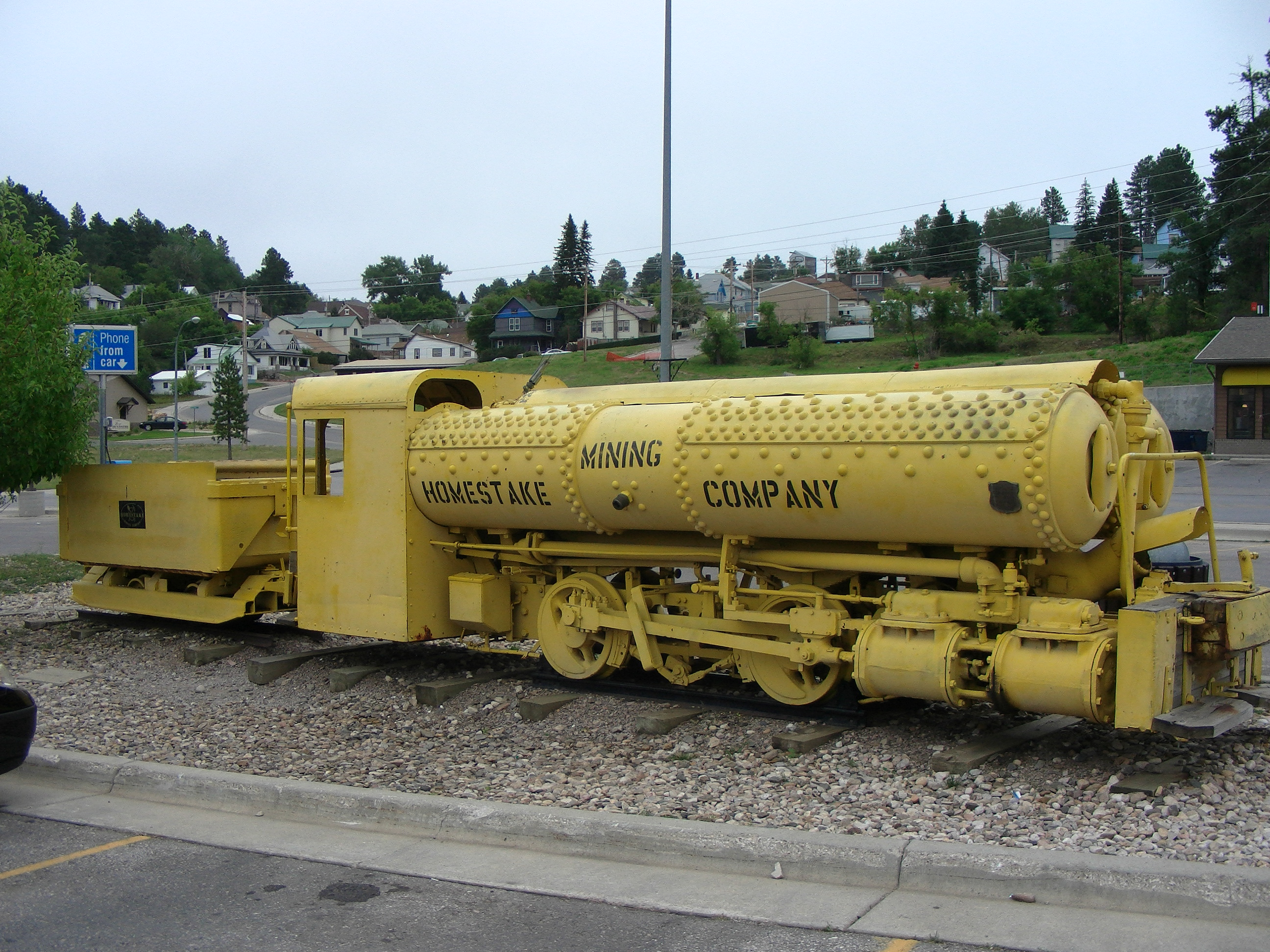 Compressed air locomotive, Homestake Mine No. 1A, powered by 137 cubic feet of compressed air at 1000 PSI, purchased from H. K. Porter in 1928, in service until 1961, weighs 27000 lbs , 27 feet long, 6 feet 10 inches high, 5 feet 3 inches wide. On display at the Homestake Mine.